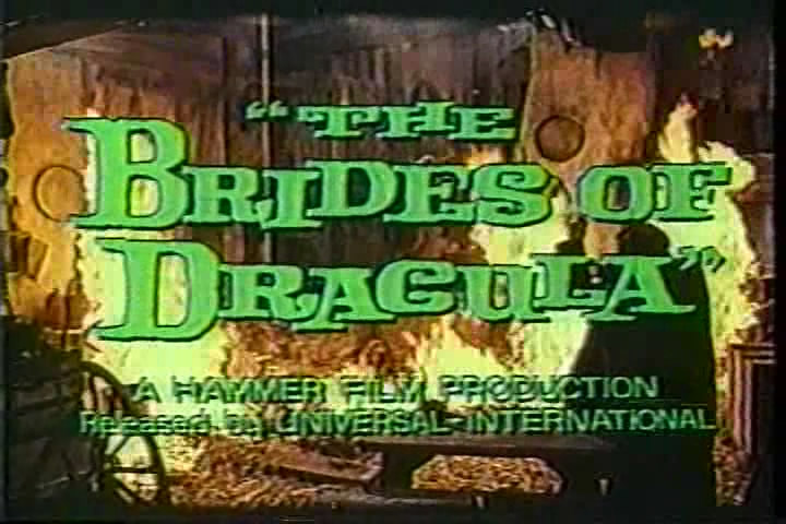 Screenshot of the logo of the film from the trailer for the film The Brides Of Dracula